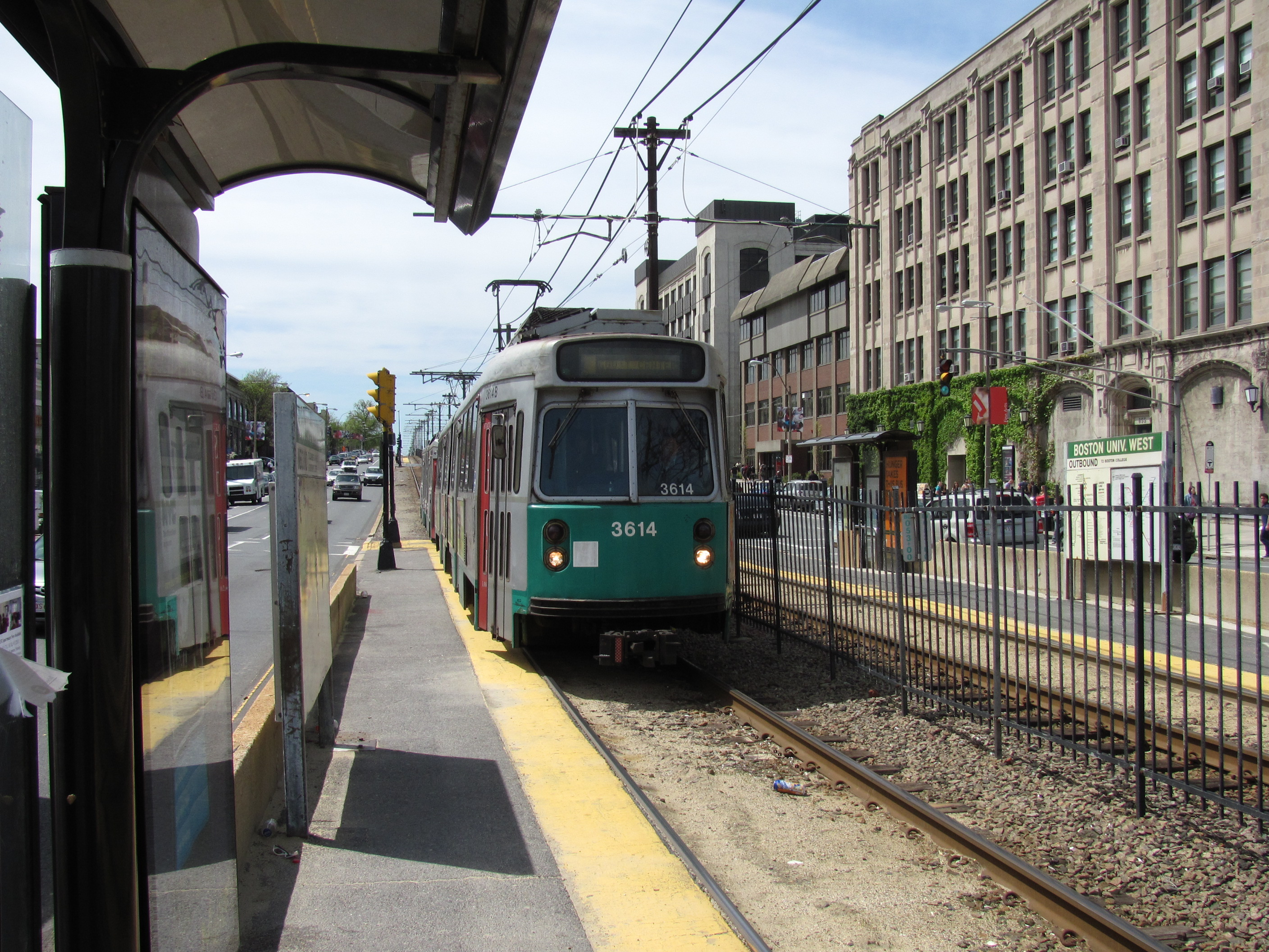 Boston University West MBTA station outbound looking west, Boston Massachusetts